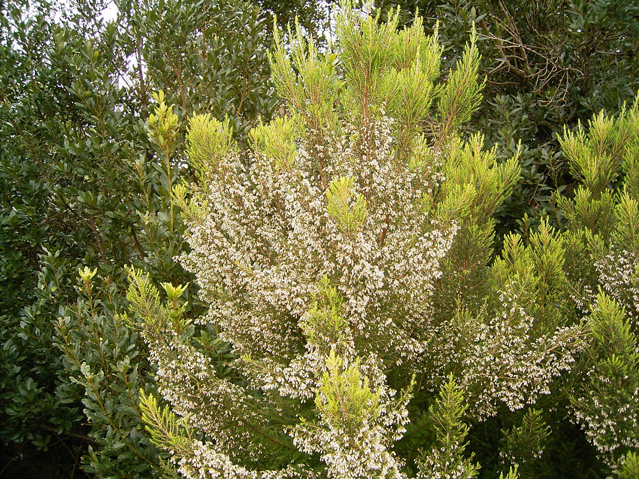 Erica arborea growing in Barlovento, La Palma, Canary Islands